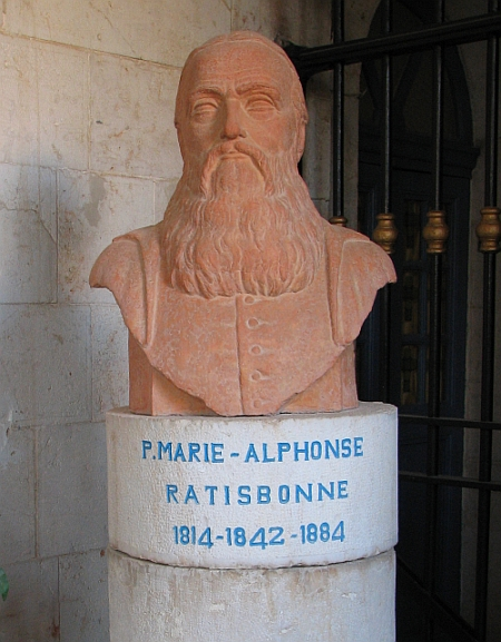 Photo by Gila Brand. This is my own work. Bust of Marie Alphonse Ratisbonne, Ratisbonne Monastery, Jerusalem.